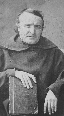 Emmanuel d'Alzon (1810-1880), French priest, founder of the "Augustins de l’Assomption" (Assumptionists)